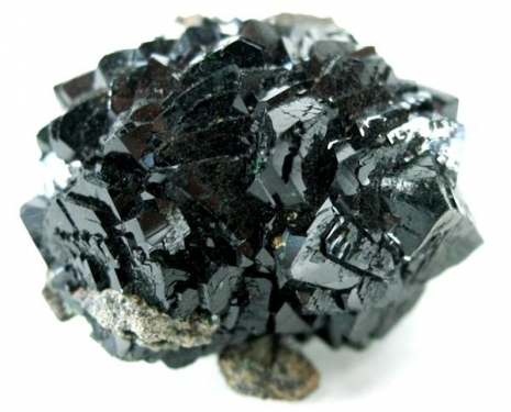 Libethenite Locality: Rokana Mine, Kitwe, Copperbelt Province, Zambia (Locality at ) Size: 2.3 x 2.0 x 1.4 cm. A superb thumbnail of sharp, highly lustrous, dark green libethenite crystals to 9 mm with flashes of gemmy, green fire mounded on a bit of matrix from the Rokana Mine of Zambia. During the 1970's this locality produced what are the world's finest examples of libethenite. The mine closed in the 1980s.